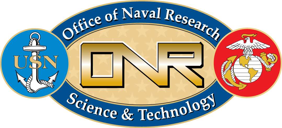 Office of Naval Research Official Logo